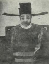 Wang Qiong, politician of the Ming Dynasty.